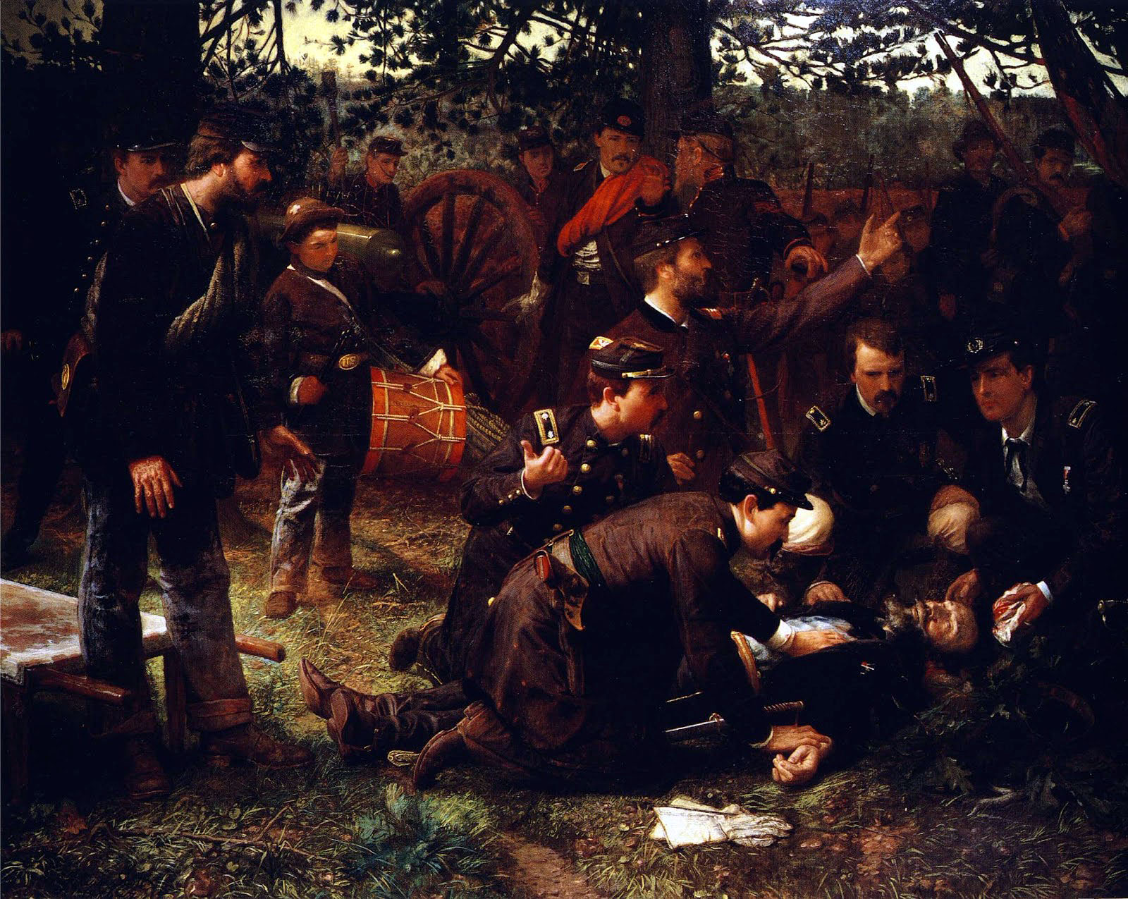 Civil War painting illustrating the death of Sedgwick at Spotsylvania, Virginia.